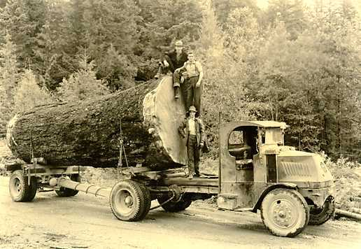 A large log of Douglas fir going to market. This log is over 9 ft. in diameter and scales 7000 board ft of timber.There is sufficient lumber in this log to supply all the wood necessary in the construction of a five room frame house. Additional Comments: It is uncertain whether this photo is in the Park.